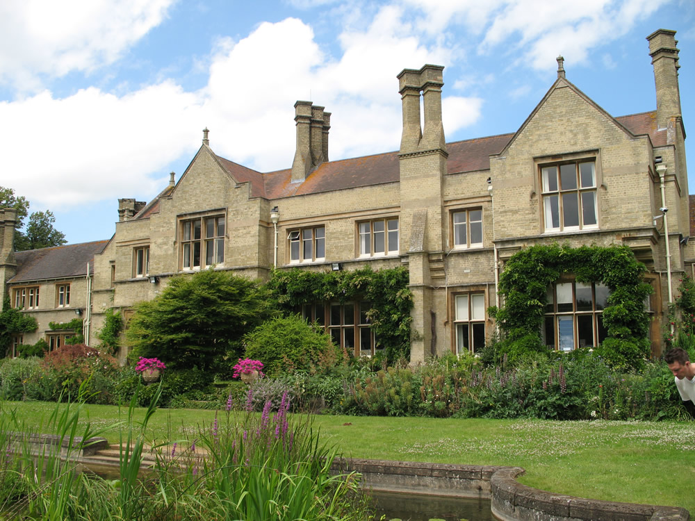 The Lodge at Sandy, Bedfordshire, United Kingdom.